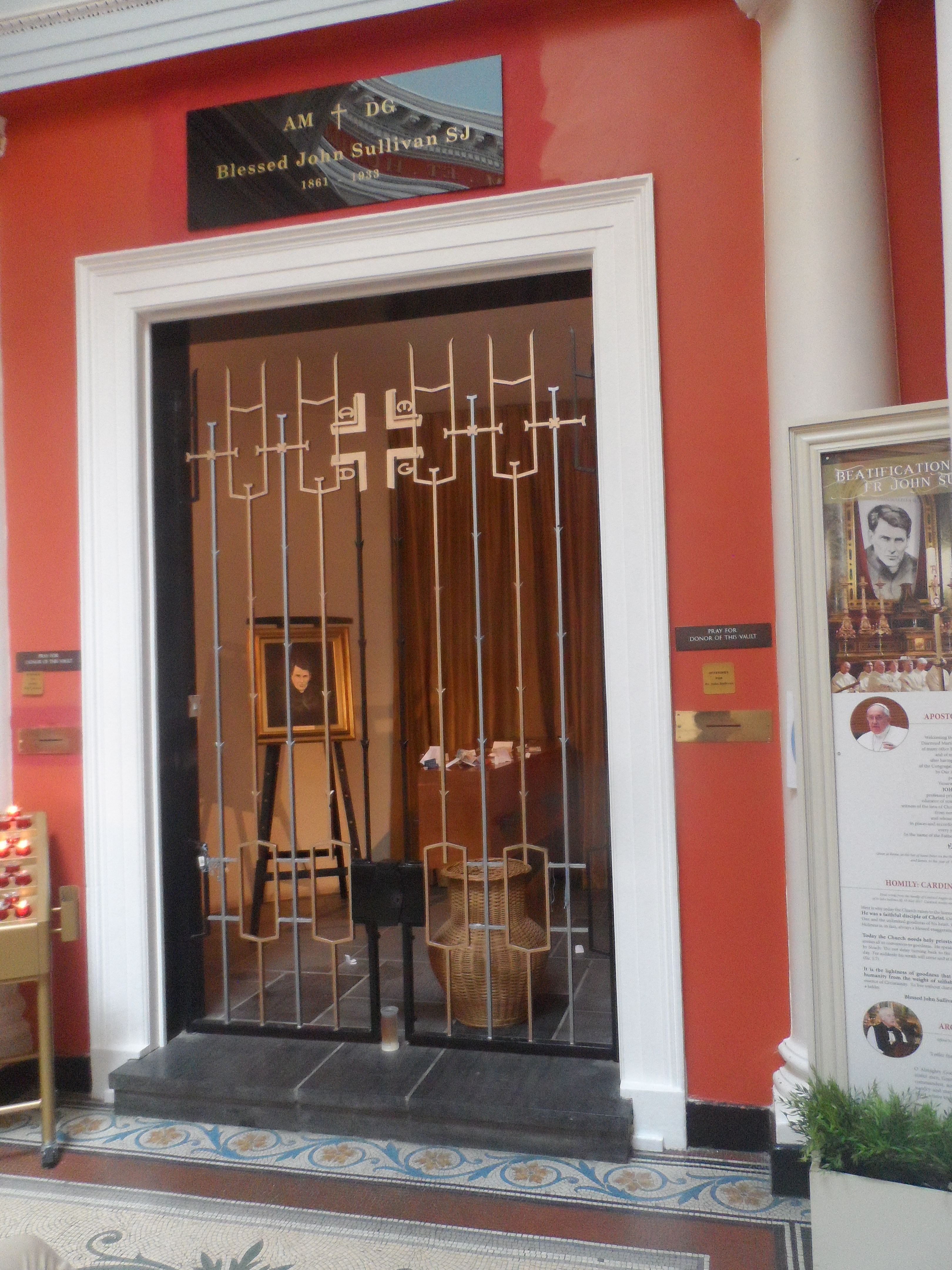 St.Francis Xavier Church, Dublin - Sullivan tomb